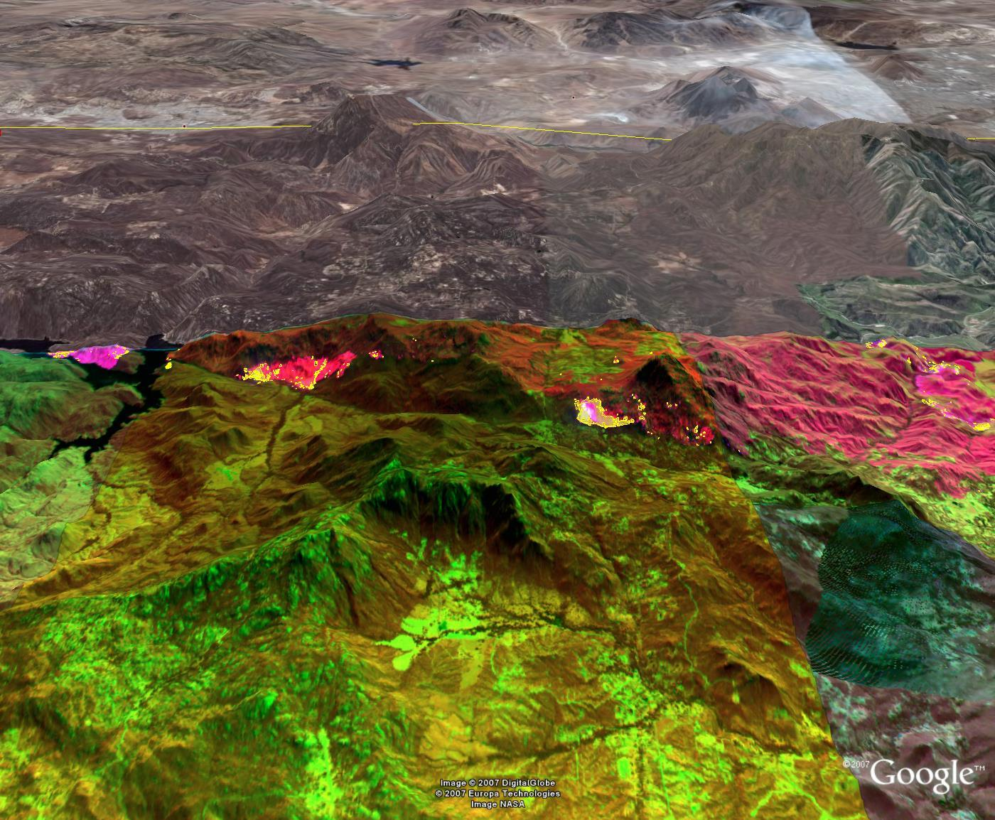 Thermal-infrared imaging sensors on NASA's Ikhana unmanned research aircraft recorded this image of the Grass Valley / Slide Fire near Lake Arrowhead / Running Springs in the San Bernardino Mountains of Southern California just before noon Oct. 25. The 3-D processed image is a colorized mosaic of images draped over terrain, looking east. Active fire is seen in yellow, while hot, previously burned areas are in shades of dark red and purple. Unburned areas are shown in green hues.